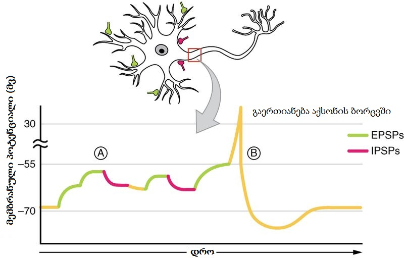 Version 8.25 from the Textbook OpenStax Anatomy and Physiology Published May 18, 2016